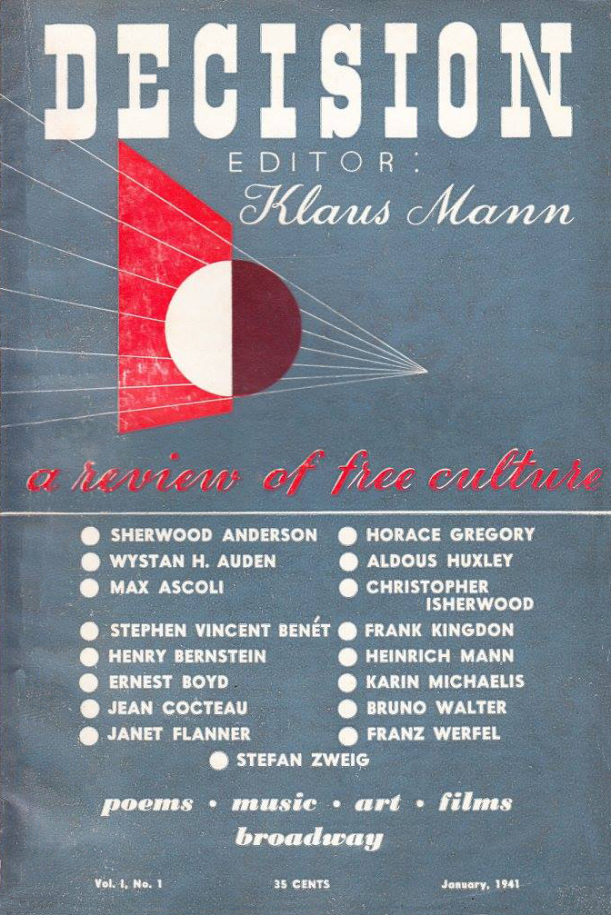 Cover page of Decision: A Review of Free Culture, vol. 1, no. 1 (January 1941), an antifascist journal edited by Klaus Mann. This issue featured contributions by Sherwood Anderson, Wystan H. Auden, Max Ascoli, Stephen Vincent Benét, Henri Bernstein, Ernest Boyd, Jean Cocteau, Janet Flanner, Horace Gregory, Aldous Huxley, Christopher Isherwood, Frank Kingdon, Heinrich Mann, Karin Michaëlis, Bruno Walter, Franz Werfel, and Stefan Zweig.